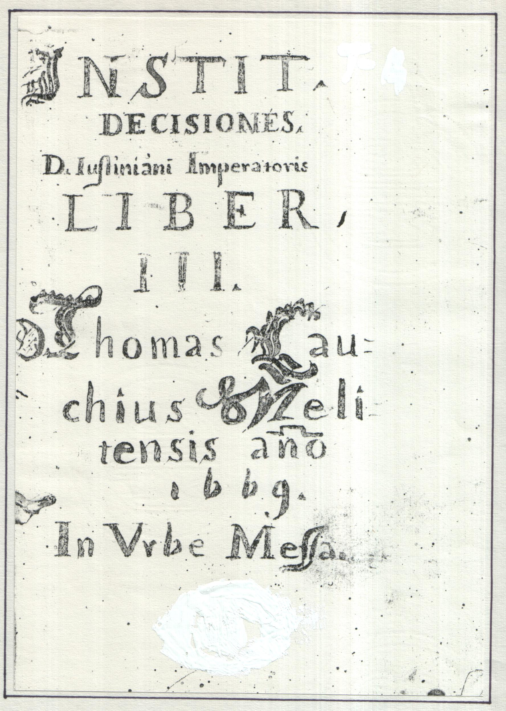 Thomas Cauchi's 1669 Institutionum